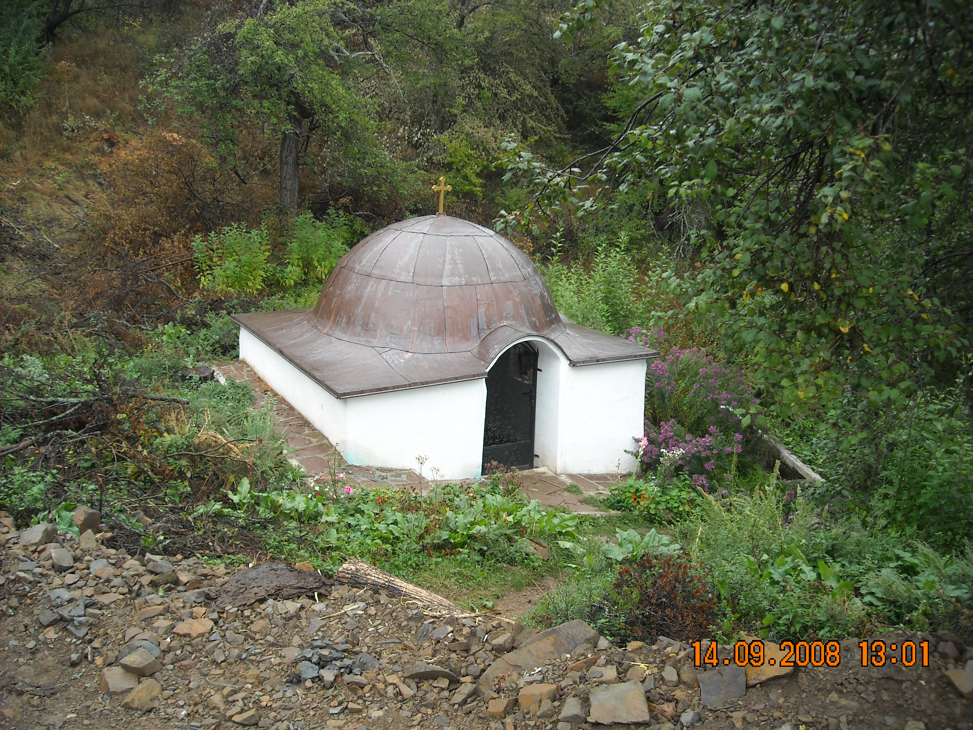 The water spring in the yard of Gigintsi Monastery